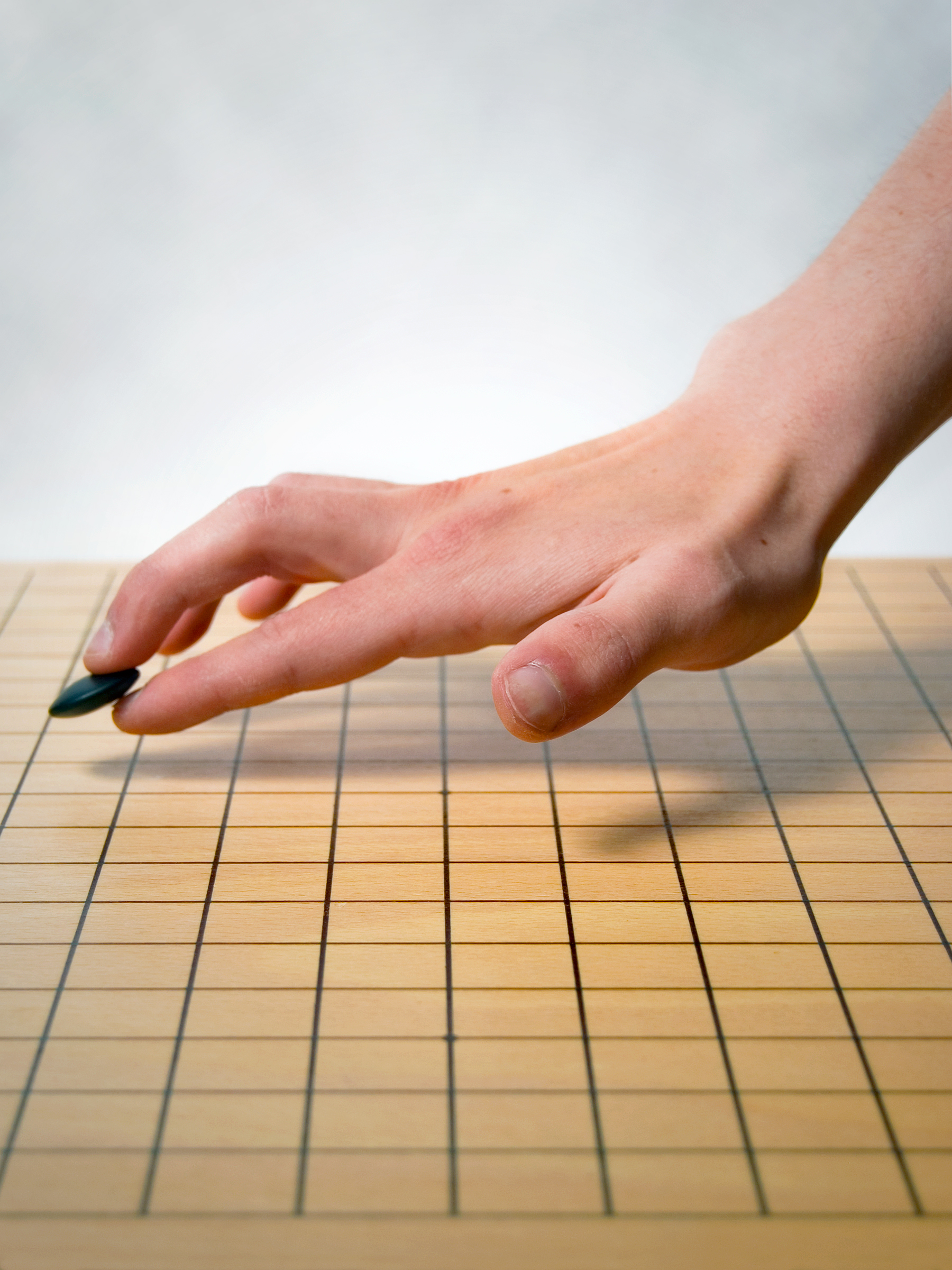 A go stone is held lightly between the index and middle fingers. Placing it on the board should produce a sharp click.